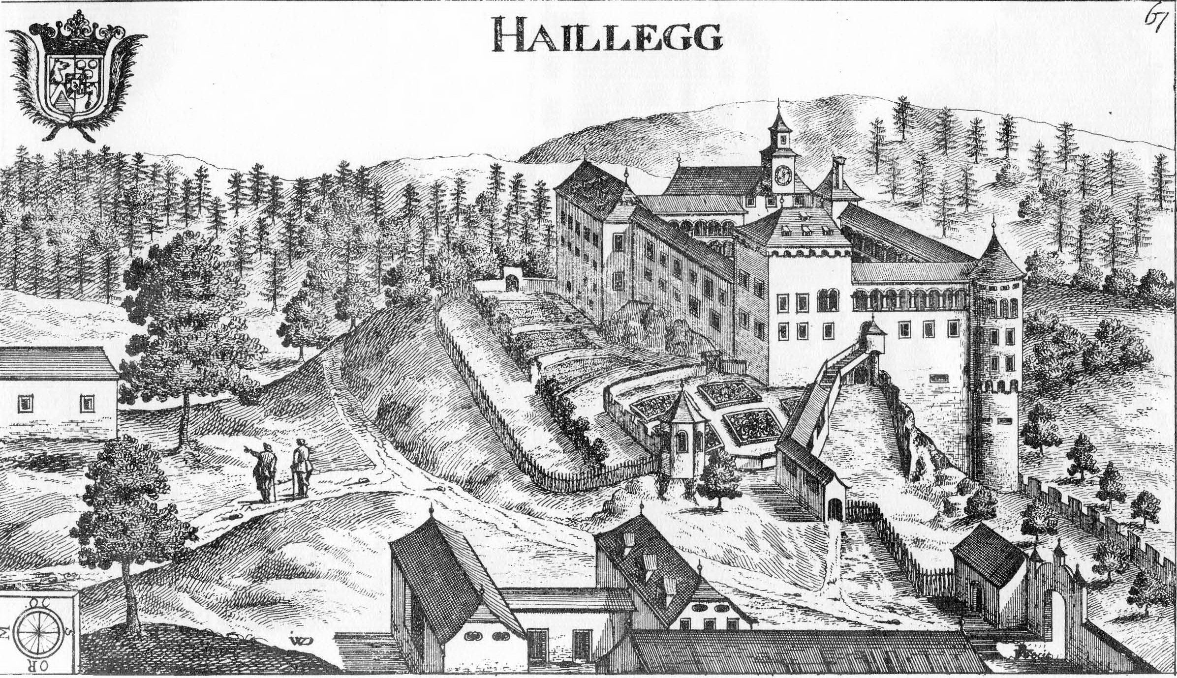 Castle of Hallegg in the Carinthian capital of Klagenfurt in Carinthia / Austria / European Union.